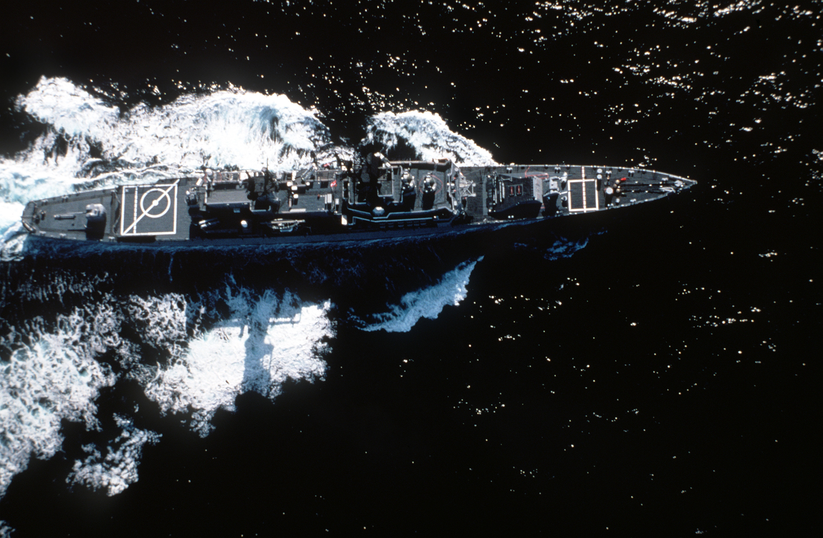 The U.S. Navy guided missile cruiser USS Fox (CG-33) underway in the Pacific Ocean off the coast of San Diego, California (USA), on 11 December 1984.